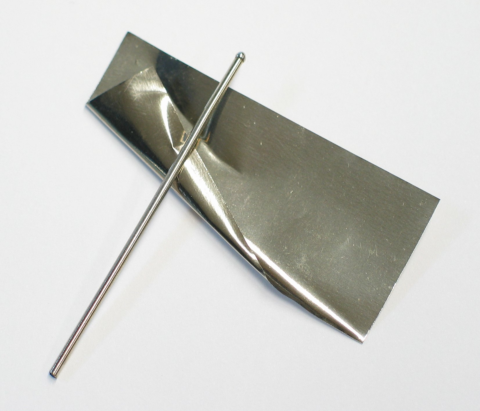 Rhodium foil and wire. Image taken by User:Dschwen on January 12th 2006.